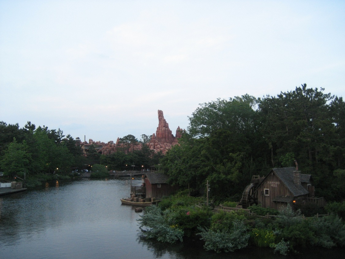 Scenery with Thunder Mountain at Tokyo Disneyland